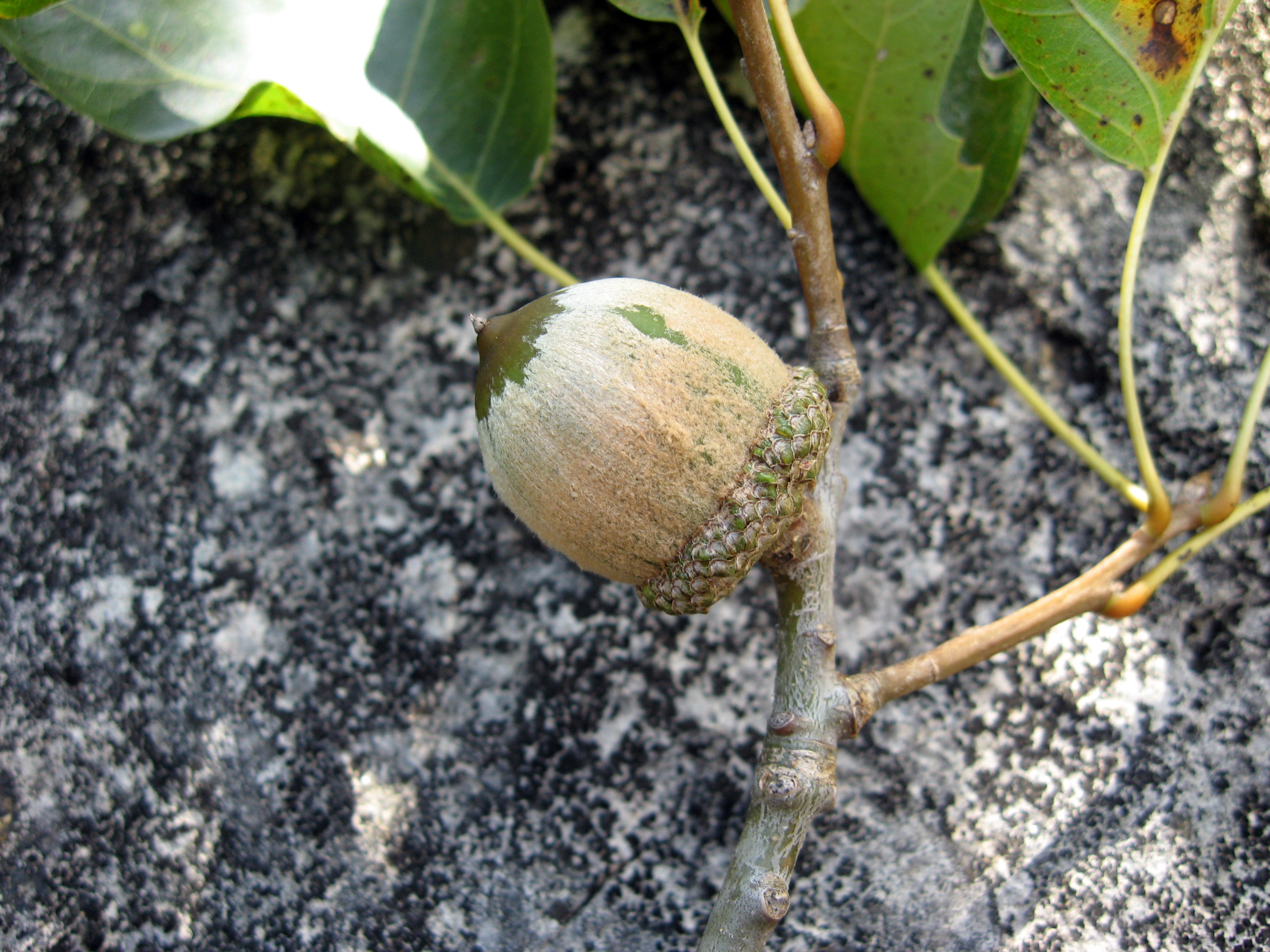 Acorn of Quercus shumardii. At edge of limestone barren, in Franklin County, Tennessee.